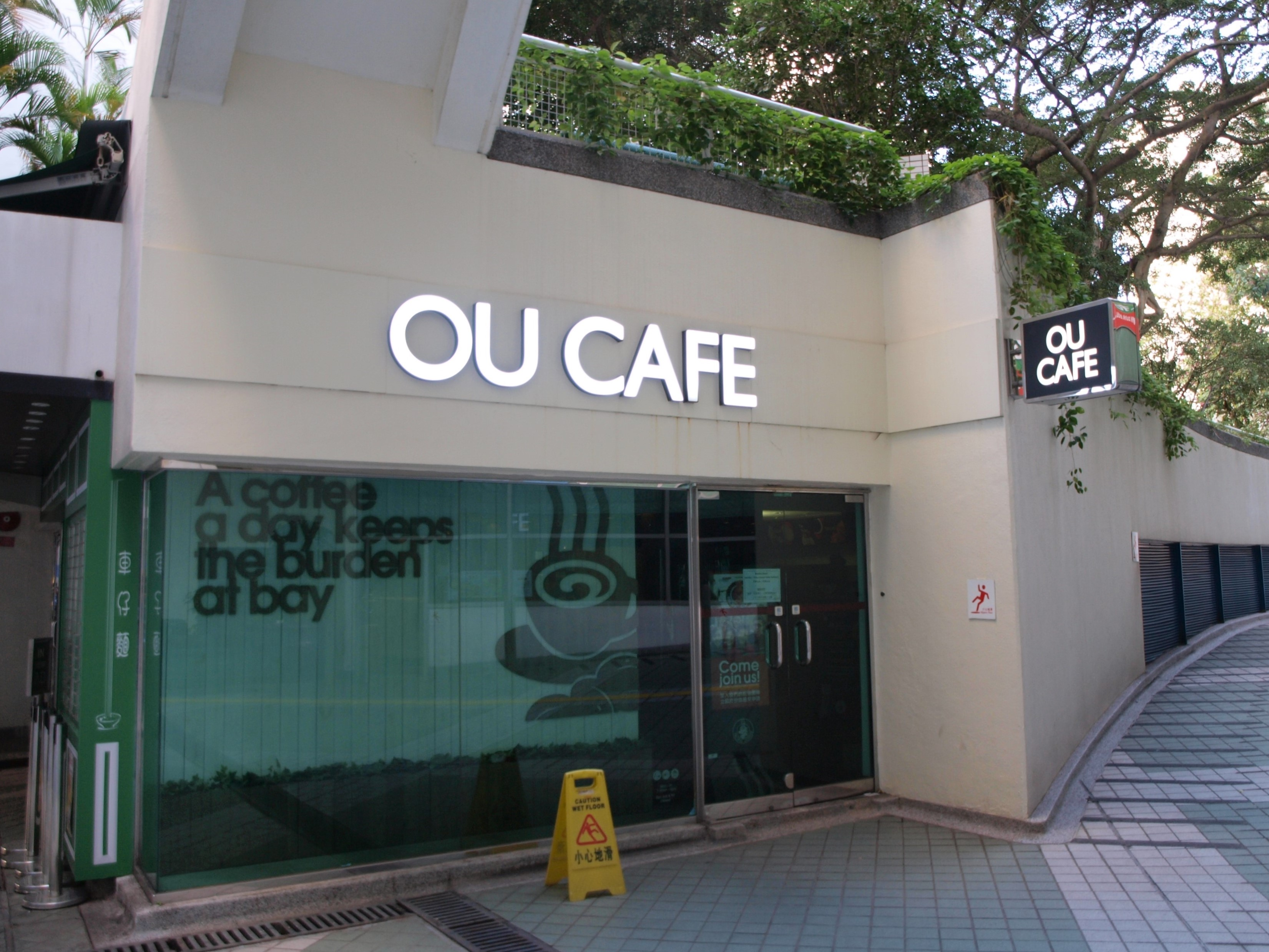 OU Cafe in the OUHK Main Campus.